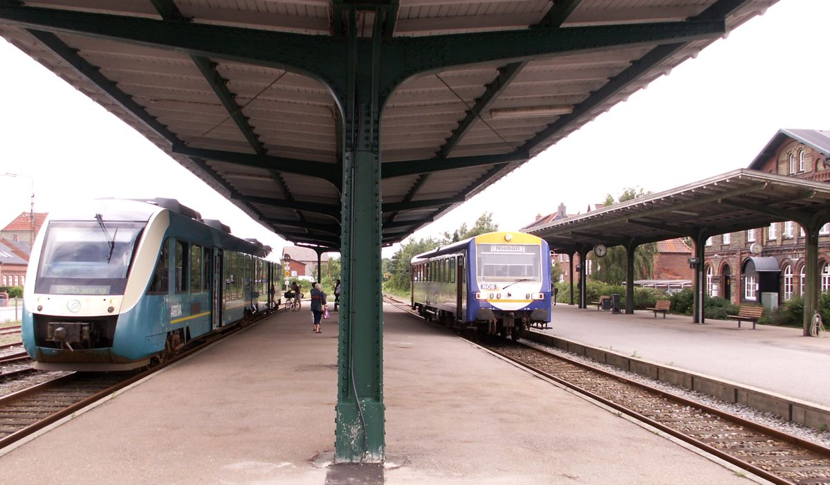 Tønder train station, Denmark